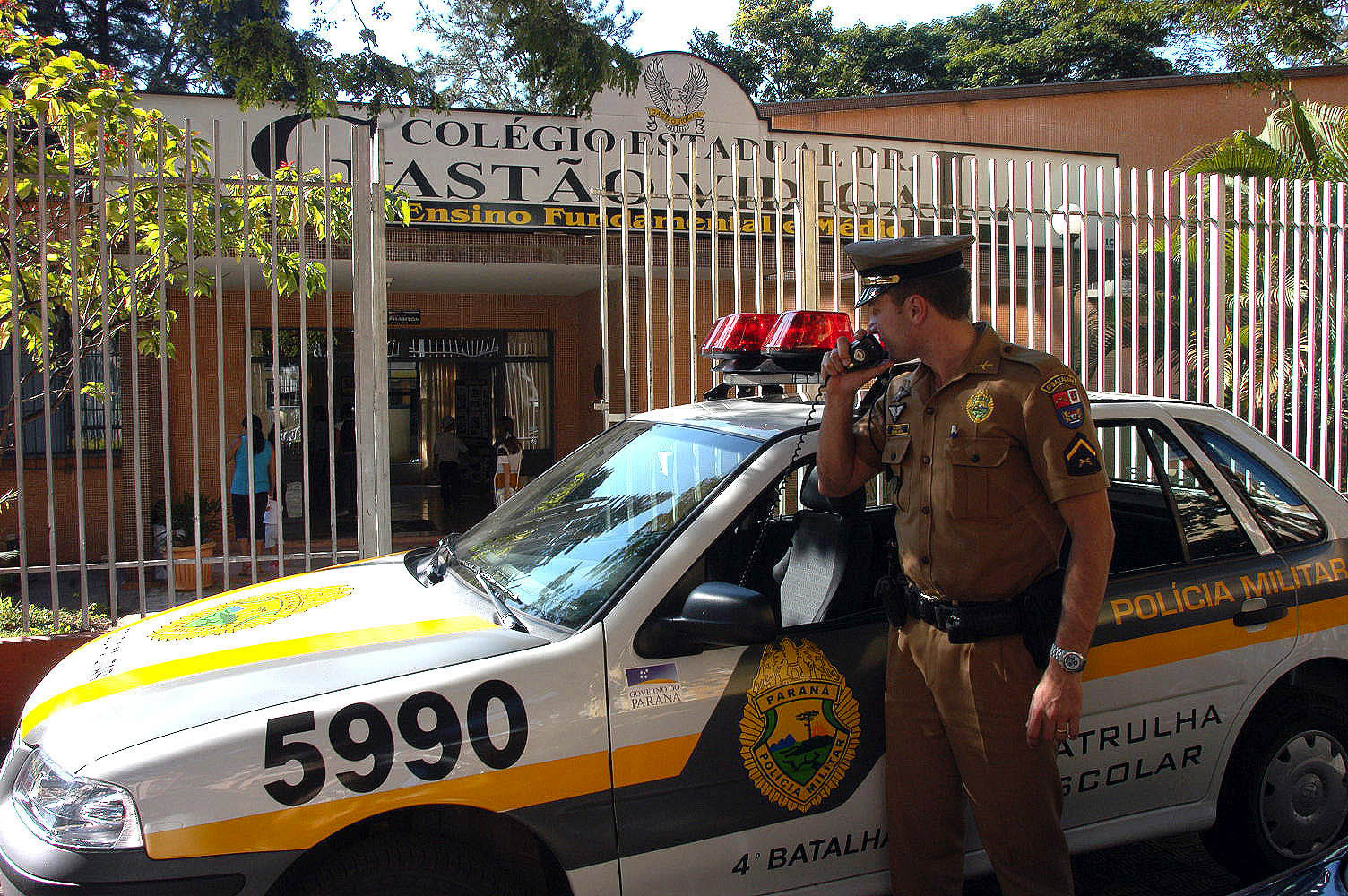 Policeman on service of School Patrol. Maringá - PR, Brazil.